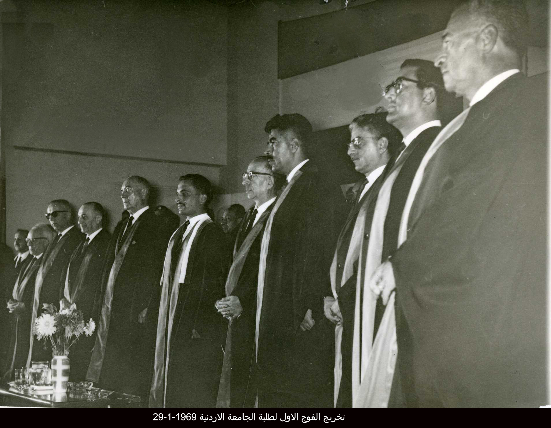 University of Jordan Photo Archive